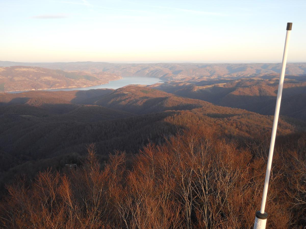 Liškovac